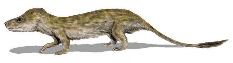 Oligokyphus, a trytilodont from the Early Jurassic of England, pencil drawing